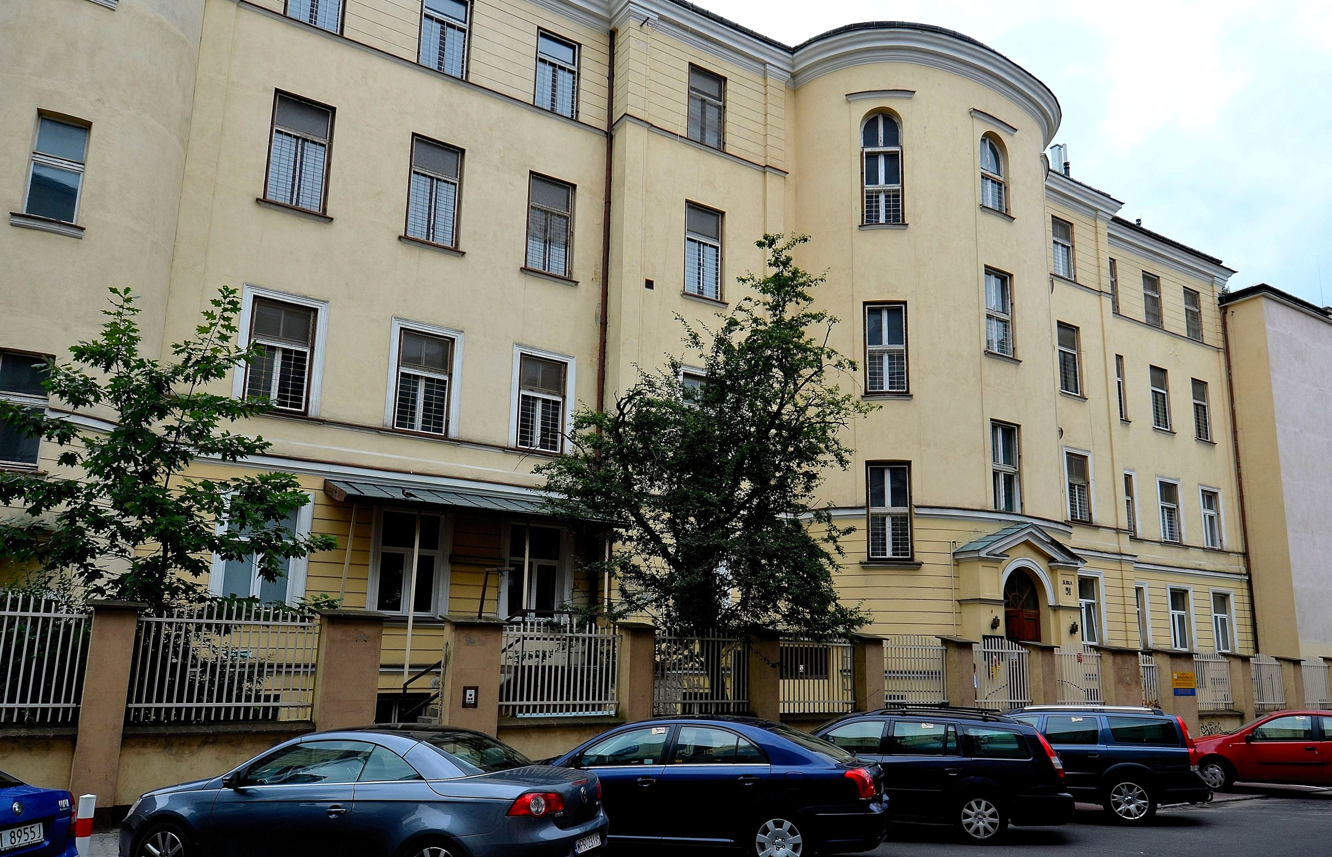 Main building of the former Bersohns and Baumans Children's Hospital in Warsaw at 51 Śliska Street